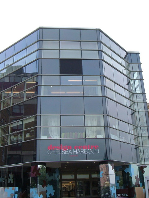 Chelsea Harbour Design Centre On Harbour Avenue, on the inland side of the development.